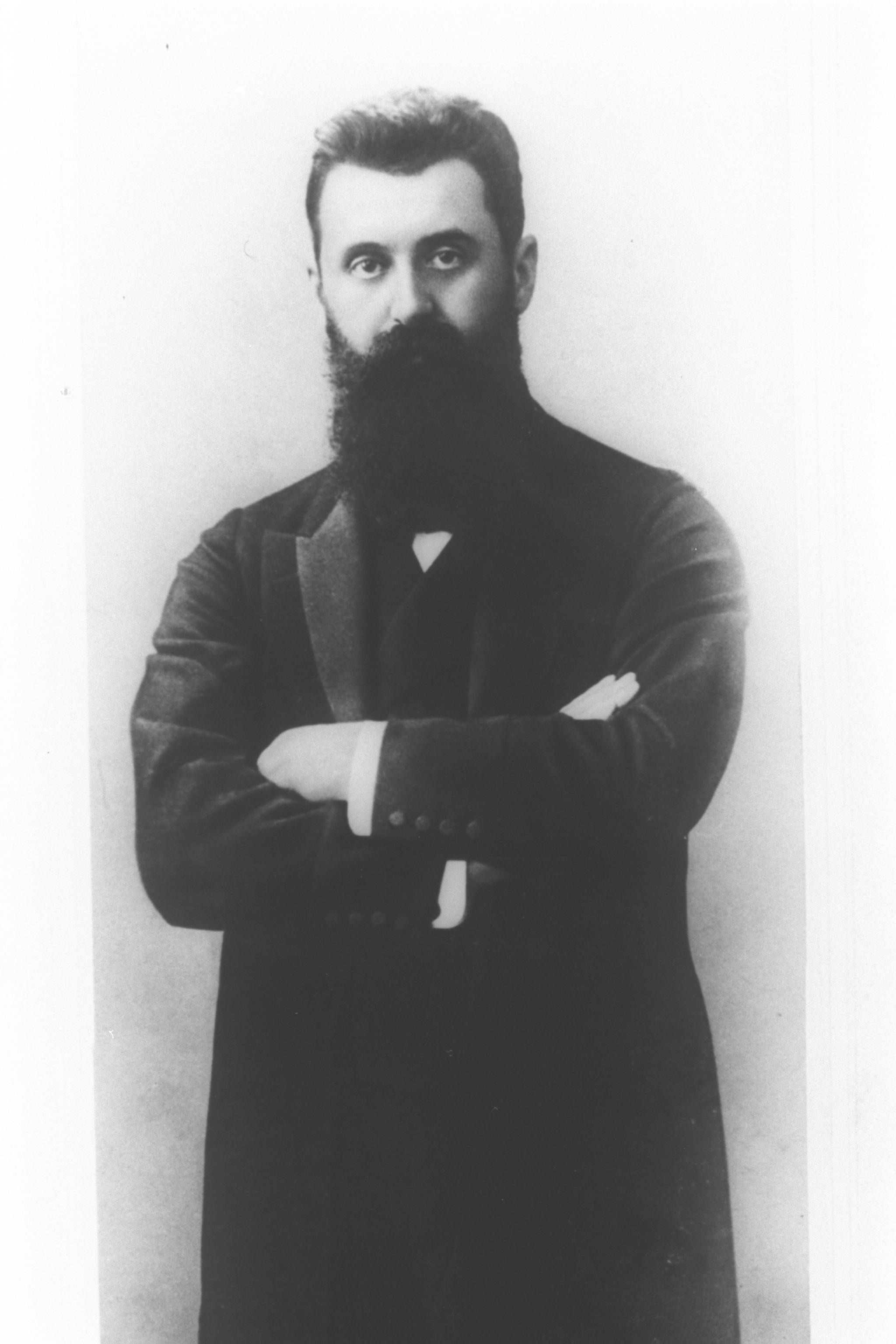 PORTRAIT OF THEODOR HERZL TAKEN IN 1903 BY PAINTER EFRAIM MOSHE LILIAN. פורטרט של תאודור הרצל, אשר צולם ע"י הצייר אפרים משה ליליין בשנת 1903.